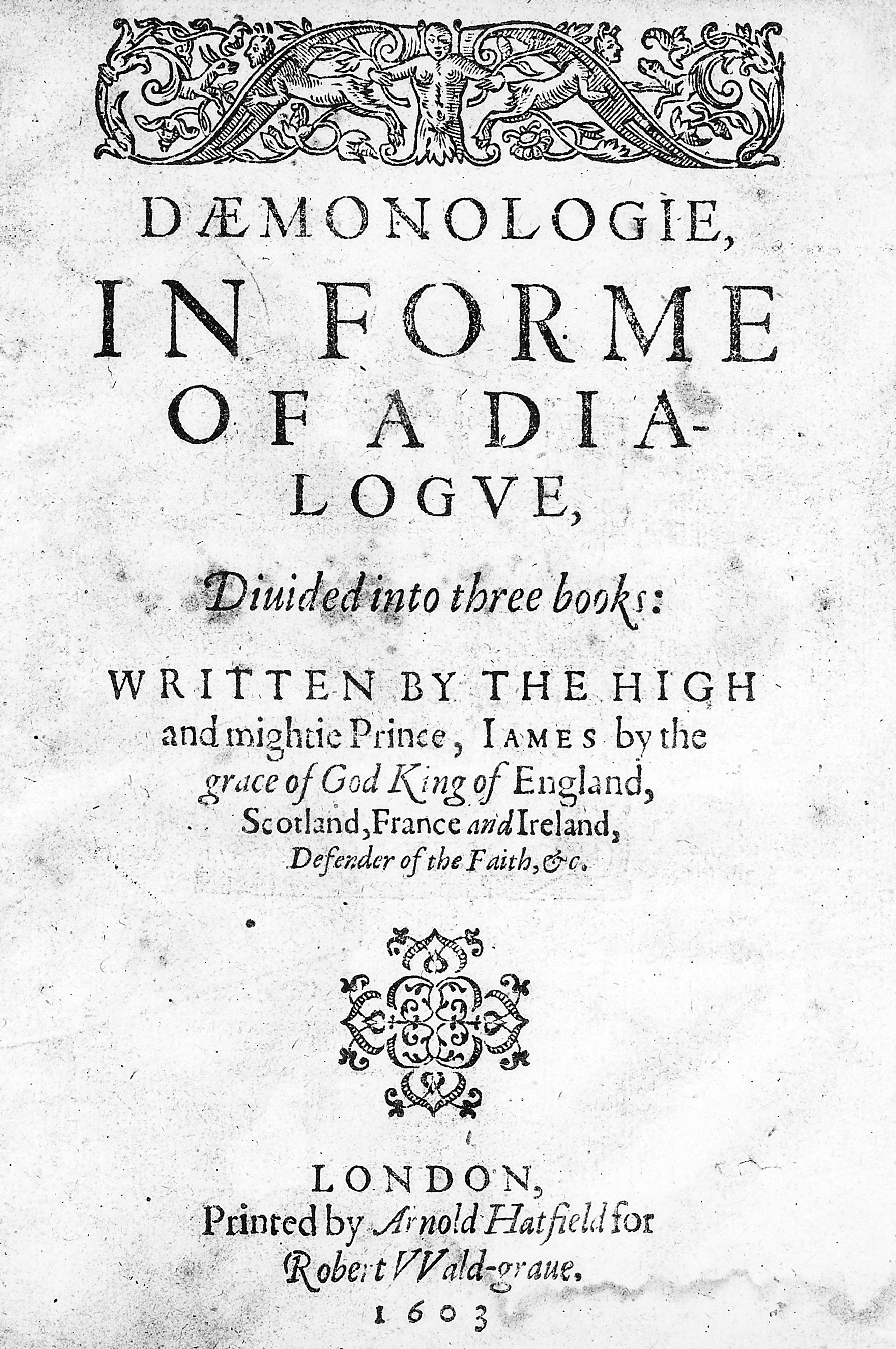 Title page Rare Books Keywords: Witchcraft